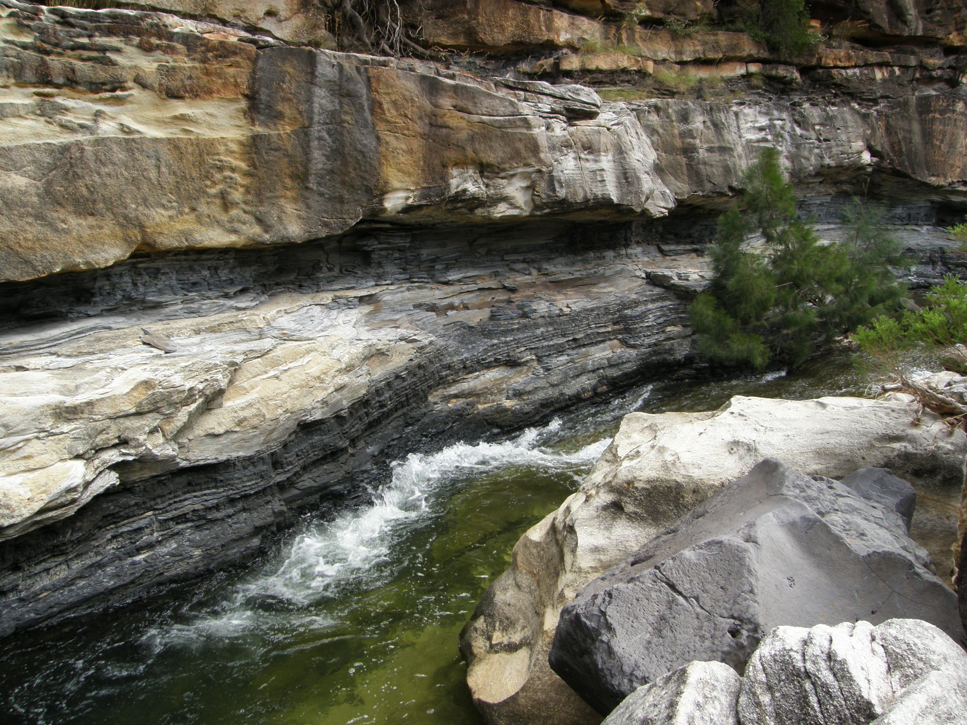 Coal seams of the Betts Creek Beds of the Permian Galilee Basin in Queensland cropping out in the Porcupine Gorge north of Hughenden.